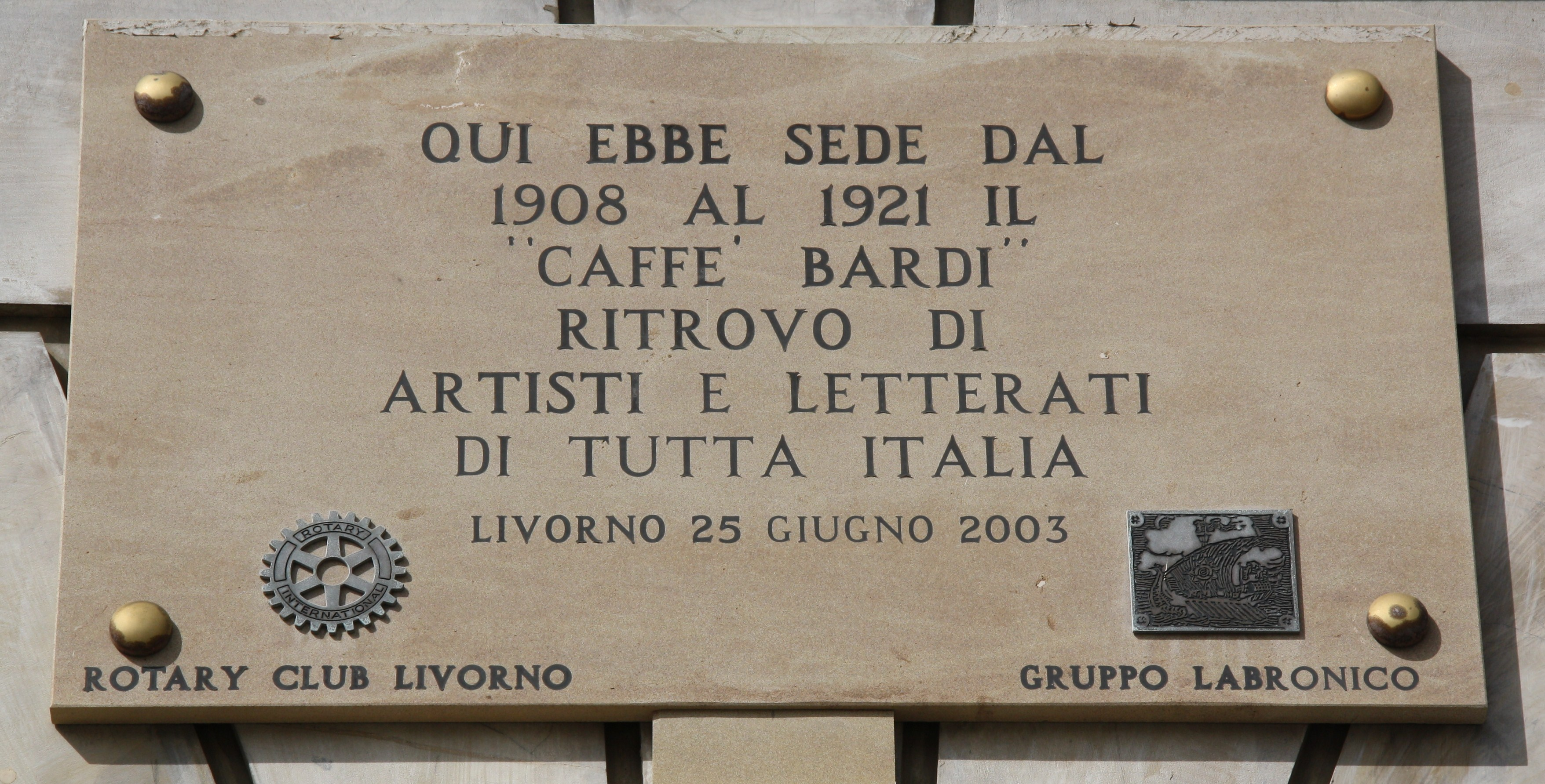 Italy, Livorno, Piazza Cavour. The plaque to remember the Caffè Bardi once meeting place for artists and intellectuals.